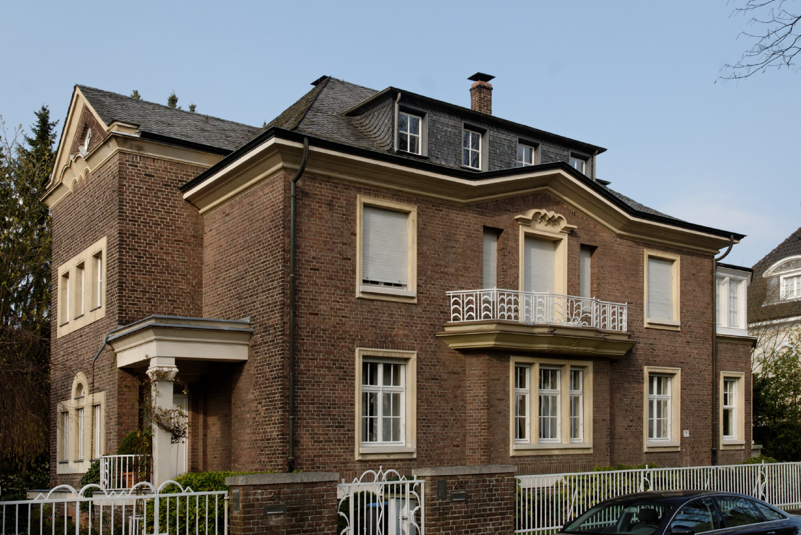 House Meliesallee 24 in Düsseldorf-Benrath, Germany